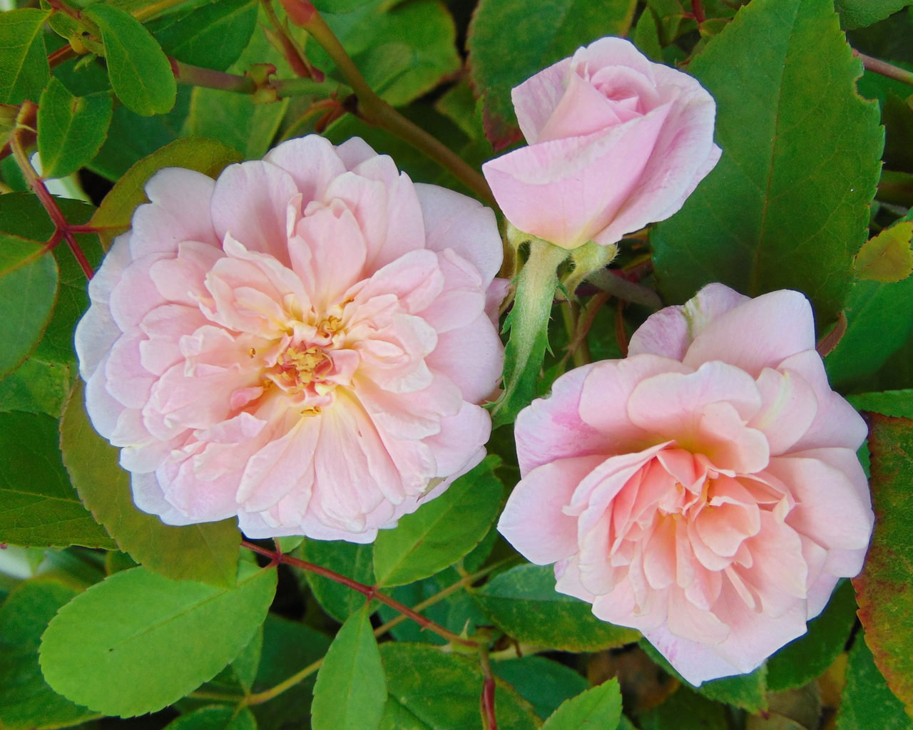 Rosa 'Cécile Brünner Cl.' Ardagh, 1904, three flowers picked as a bouquet. Melbourne, Australia, a plant that was already established by 1957.